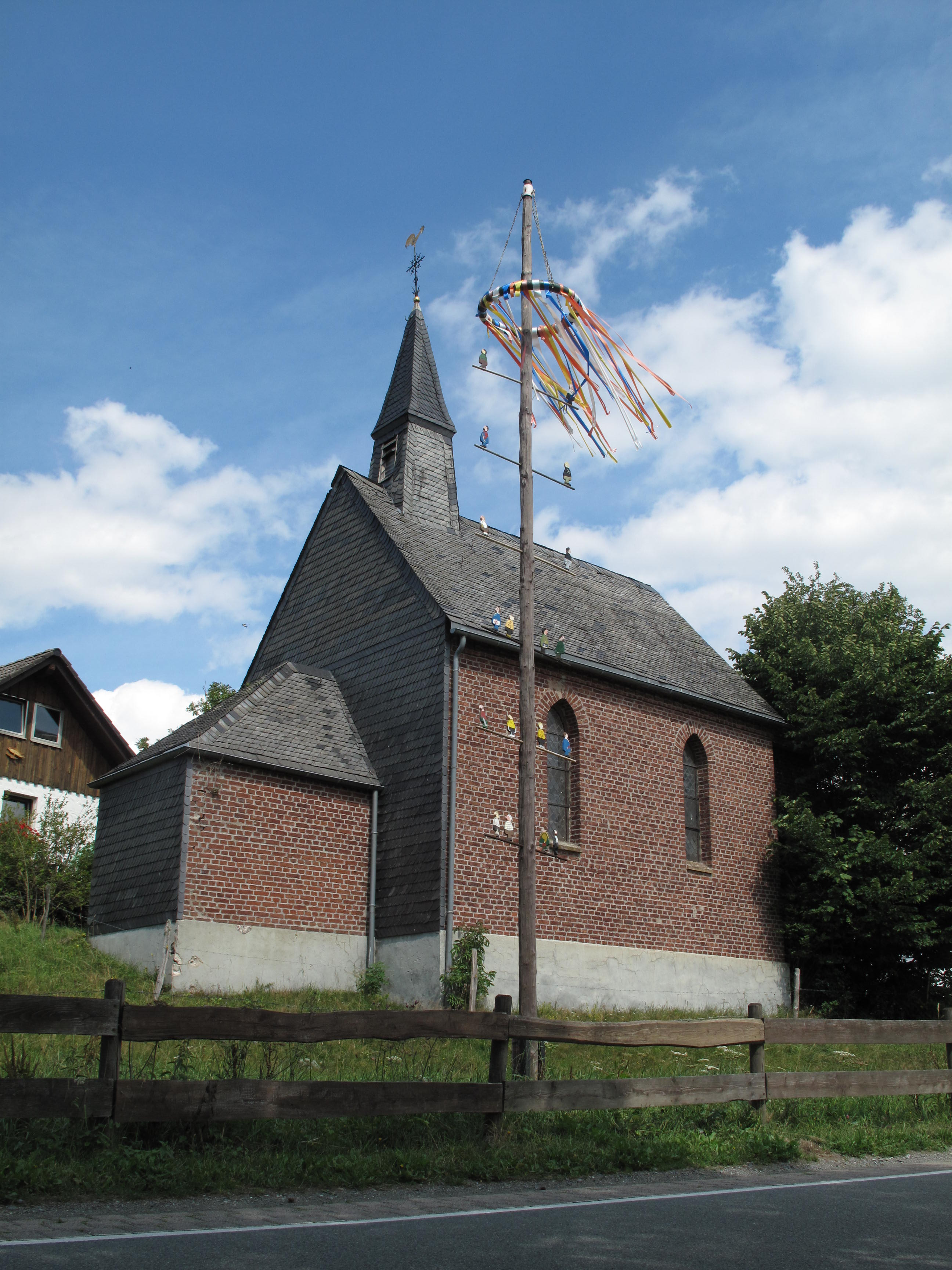 Wissinghausen, chapel